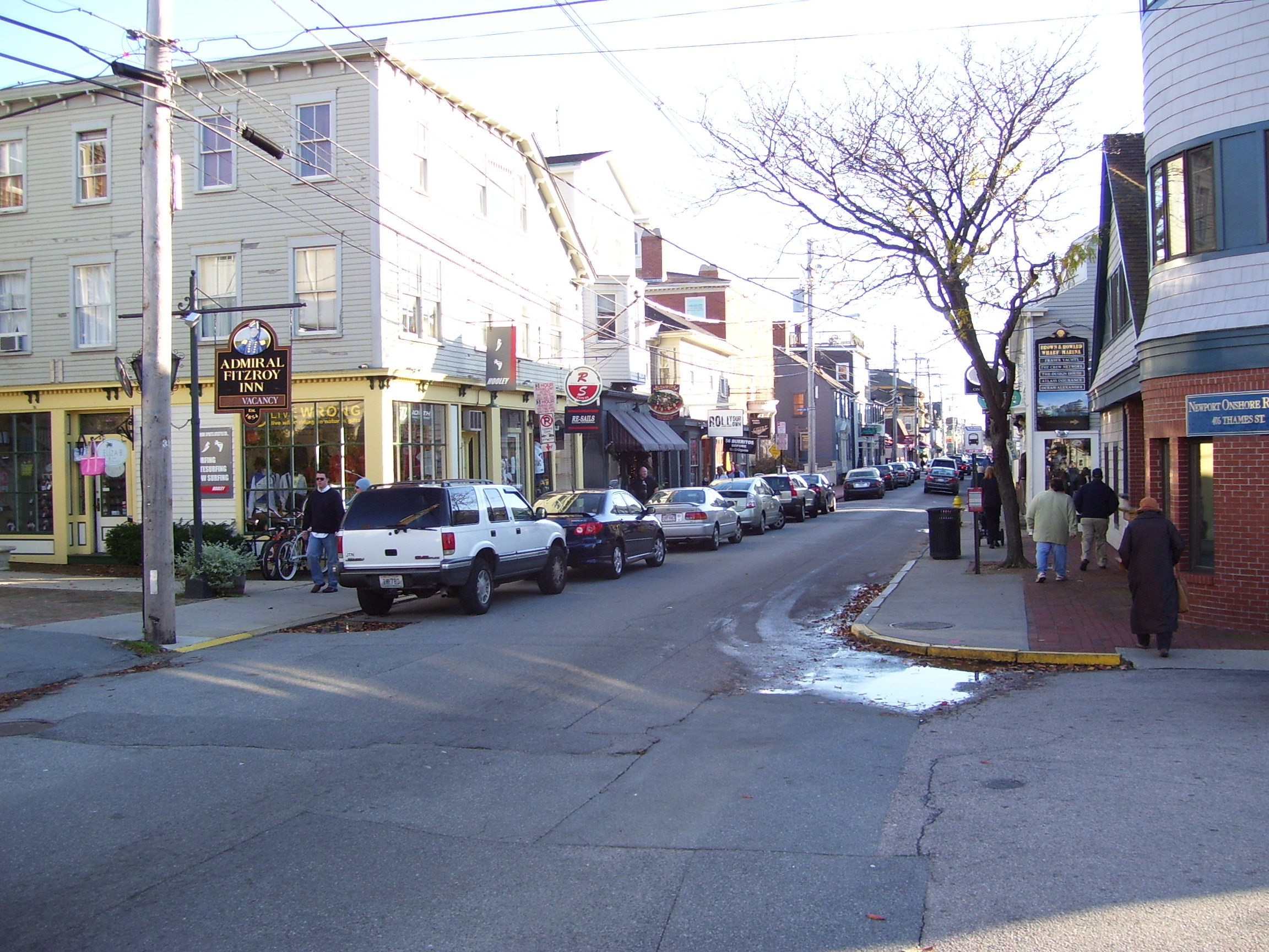 My 2008 photo of southern Thames Street in Newport, Rhode Island.